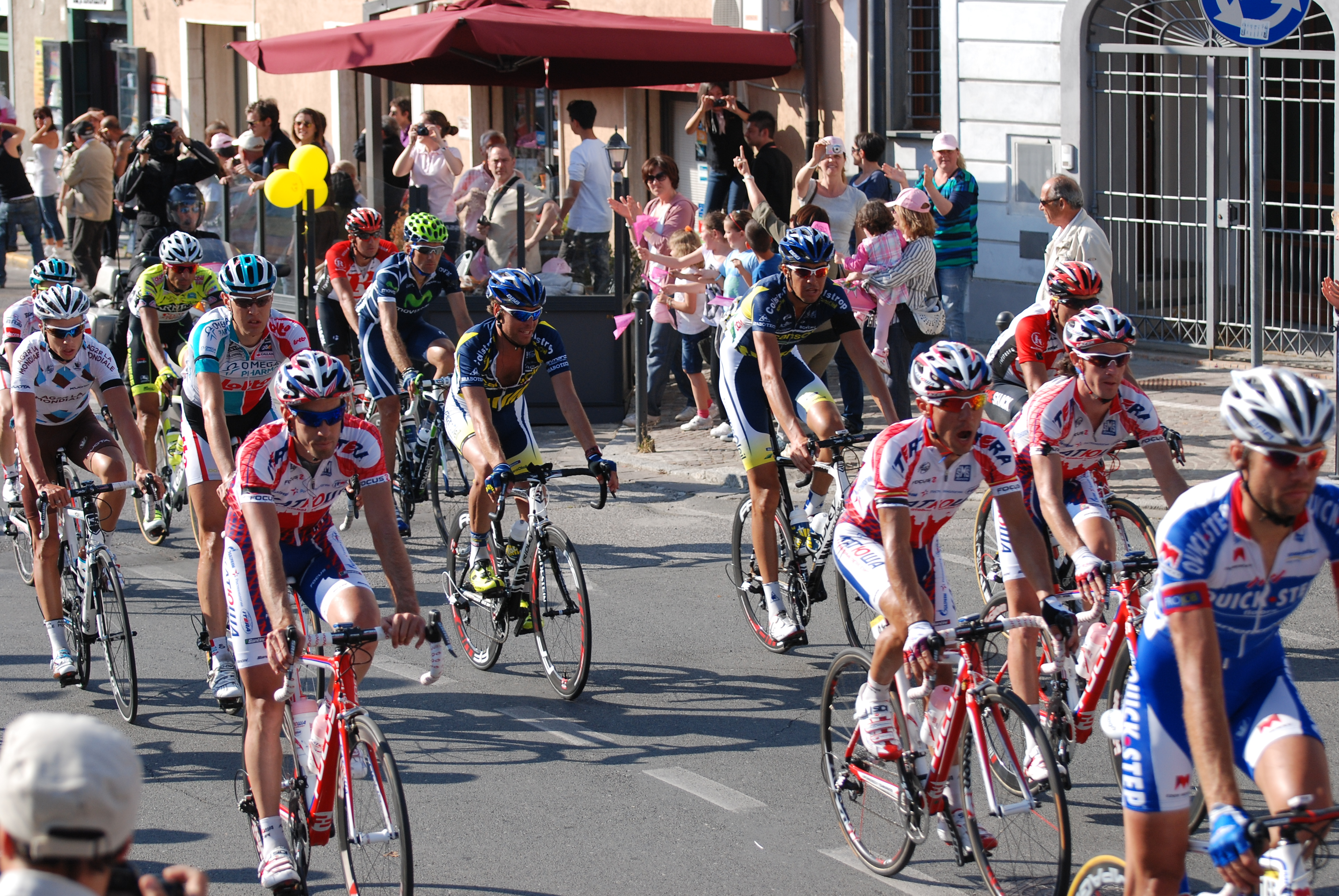 The famous Giro D'Italia passed through Pisa and finished the third leg of the race in Livorno on May 10. Photos by Chiara Mattirolo, U.S. Army Garrison Livorno